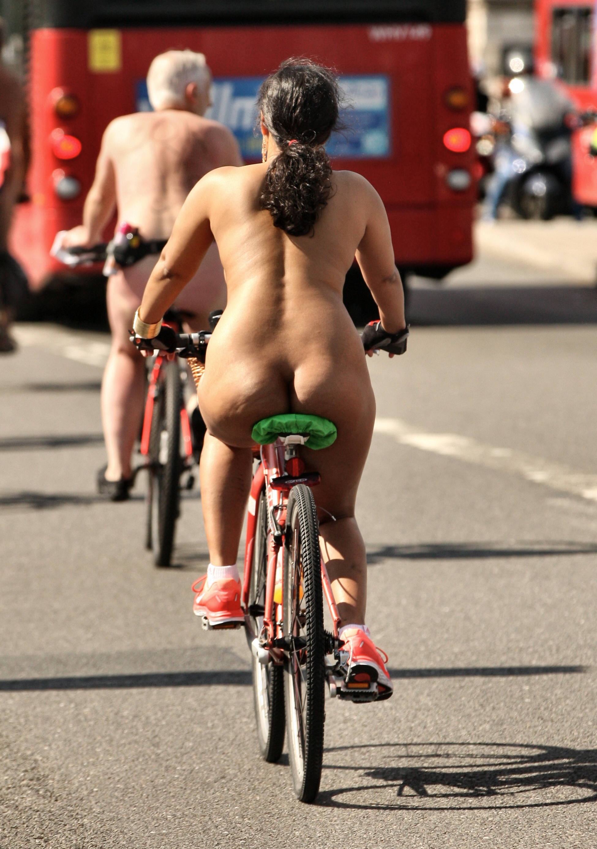 Bringing up the rear